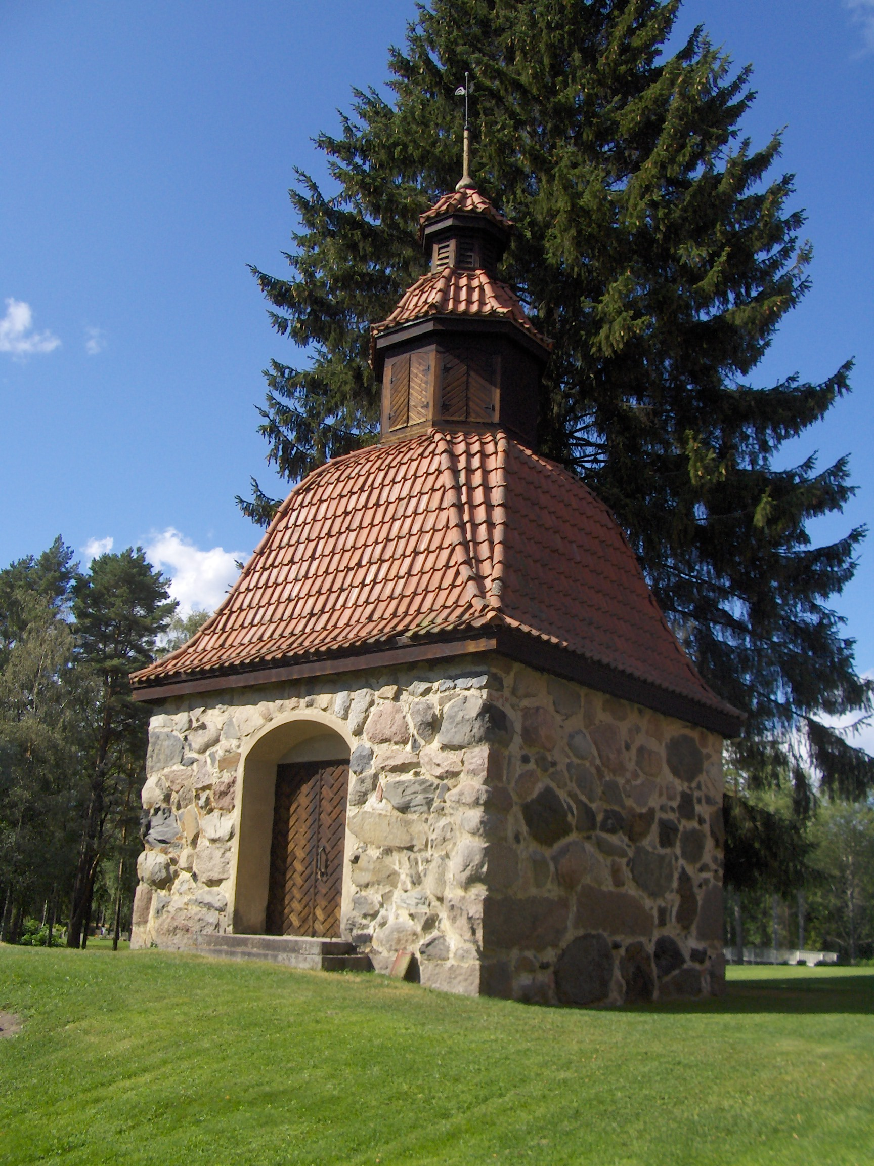 Aitolahti old church belfry in Tampere